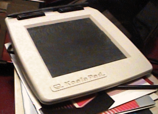 Koala Pad for Apple II